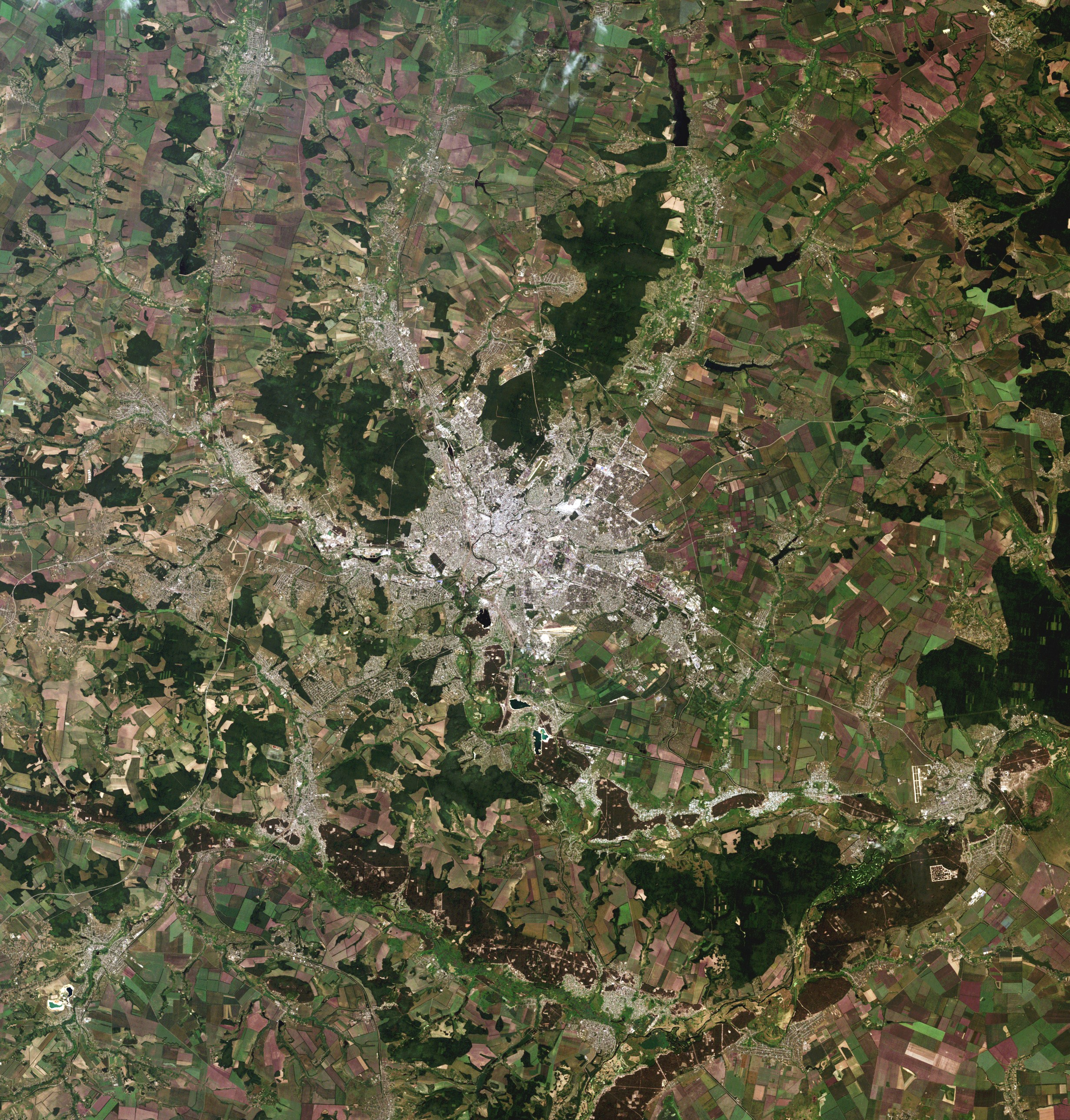 Kharkiv, Ukraine, city and vicinities, LandSat-5 satellite image, near natural colors, 2011-06-18, spatial resolution 30 m